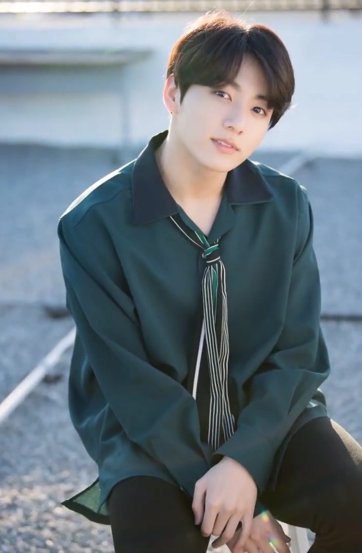 Jungkook for BTS 5th anniversary party in LA photoshoot by Dispatch, May 2018